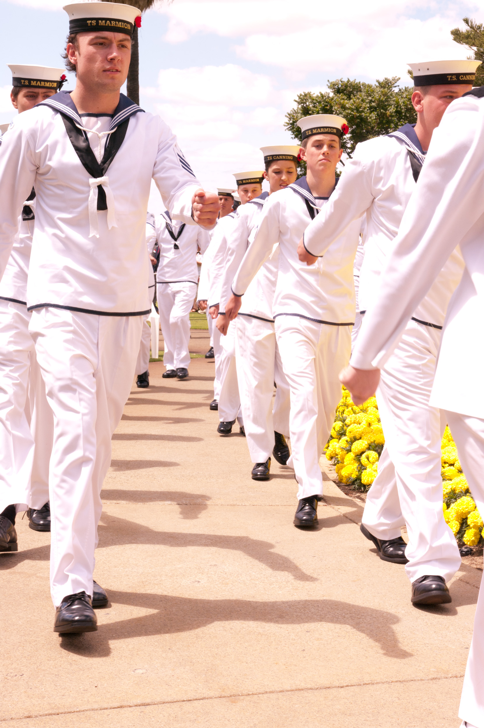 Remembrance Day ceremony Kings Park, Western Australia November 11 2012. Royal Australian Navy cadets